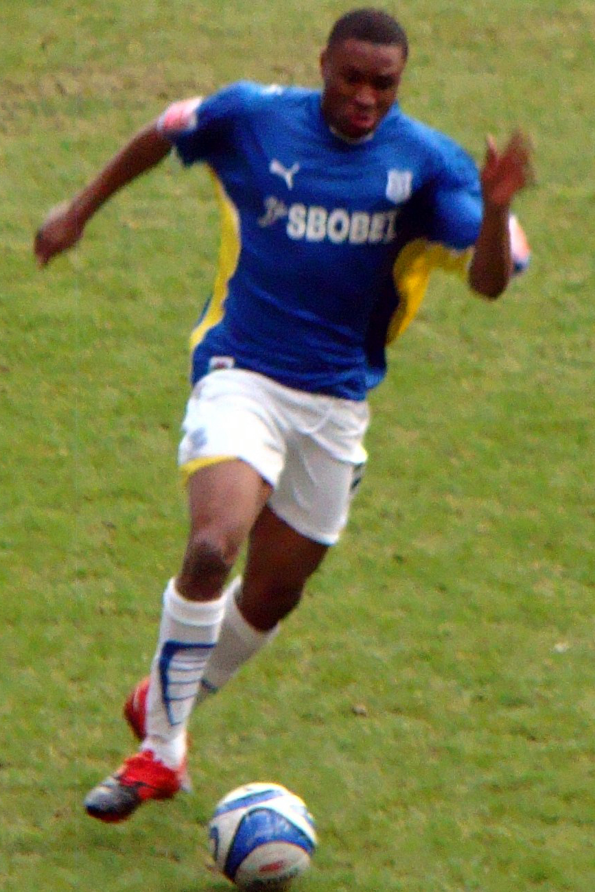 26/12/09 Cardiff V Plymouth, Championship , Cardiff City Stadium, Cardiff, Wales